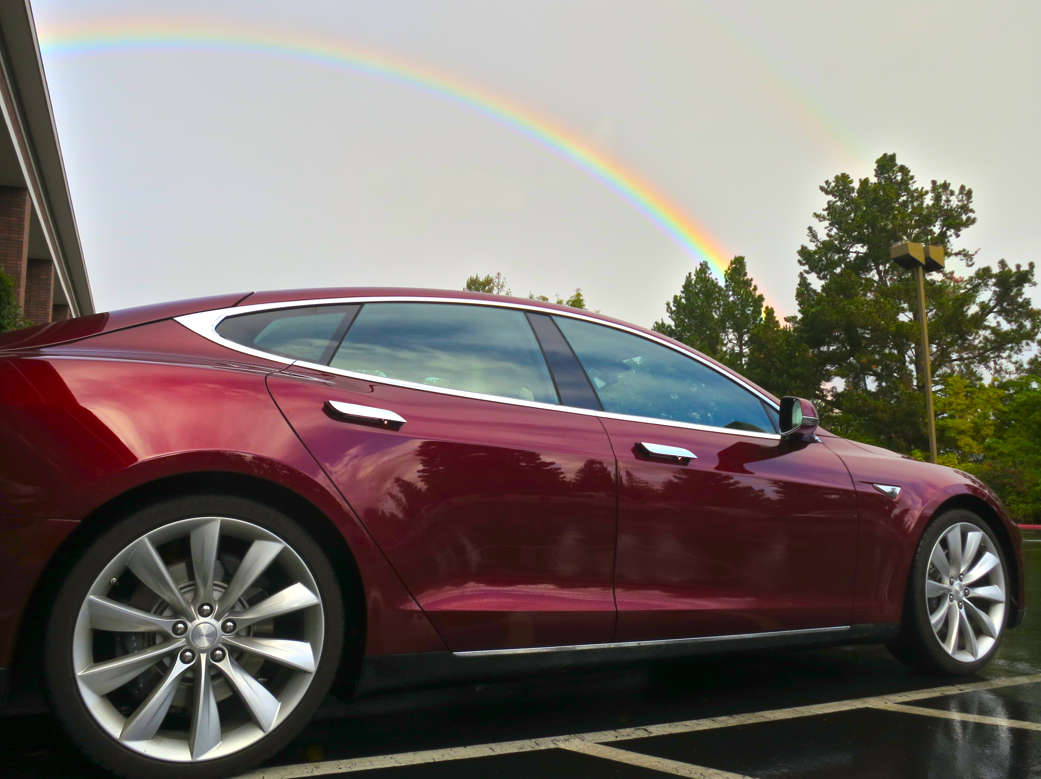 Tesla Model S electric car with a rainbow in the background